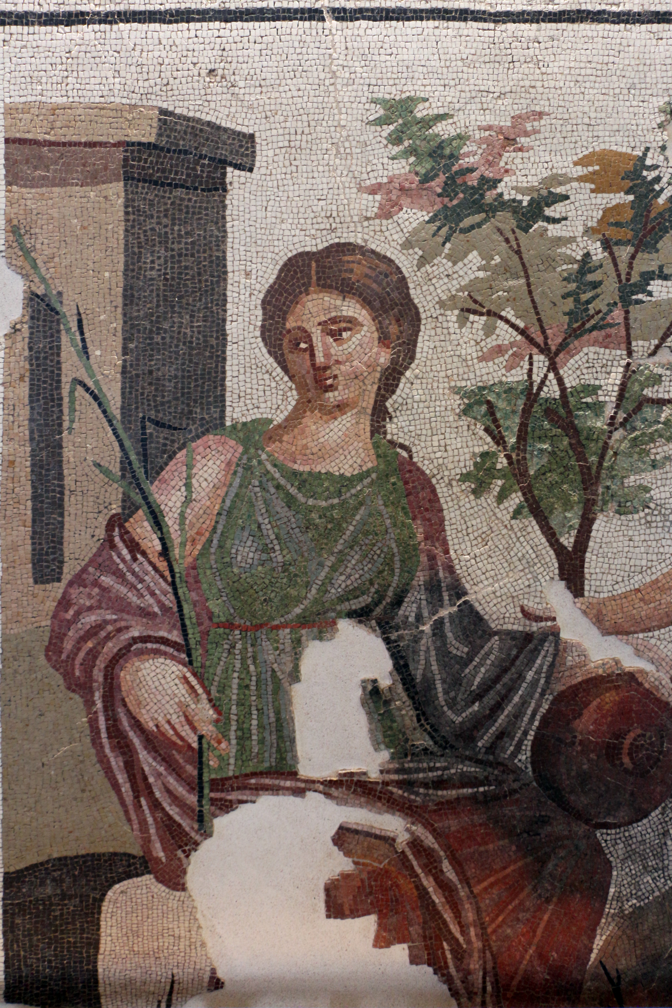 Pavilions of Expo 2015 - Bio Mediterranean Cluster - Algeria